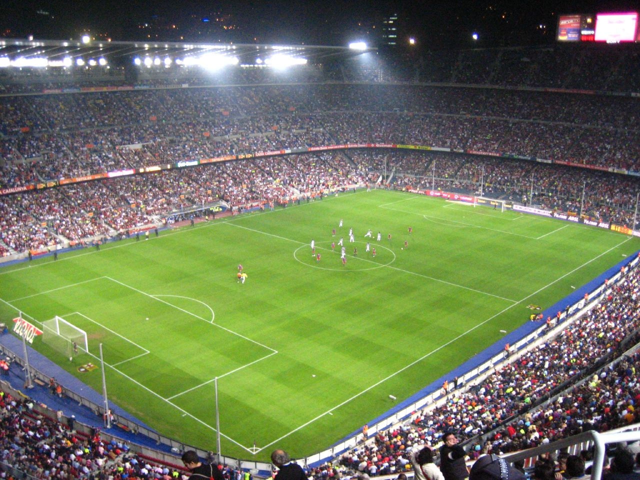 Camp Nou, largest stadium in Europe and home ground of FC Barcelona, October 30, 2005.